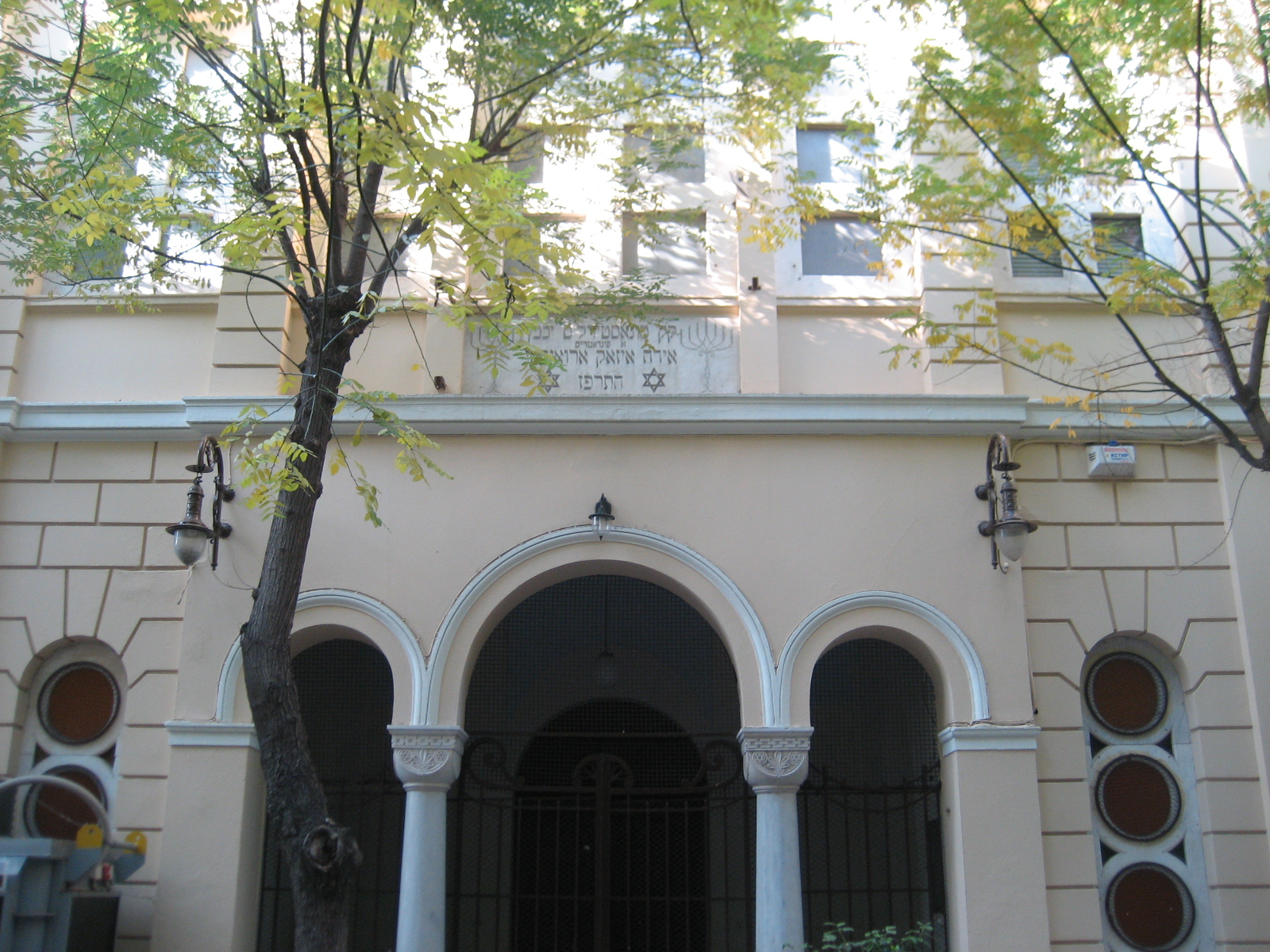 Exteior view of the Monastir Synagogue in Thessaloniki, Greece